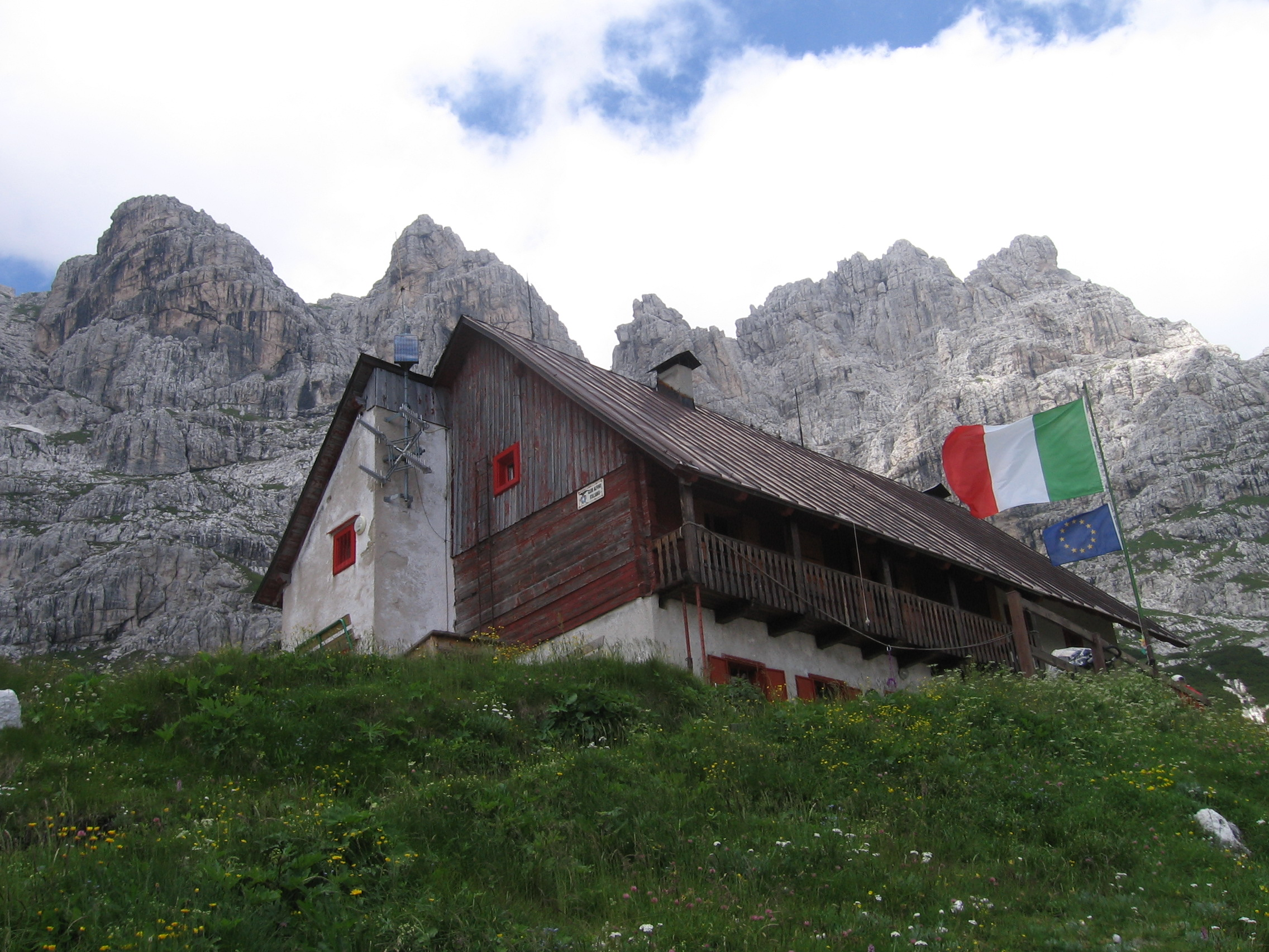 Guido Corsi hut, under the walls of Divja Koza / Cima di Riofreddo, Italy